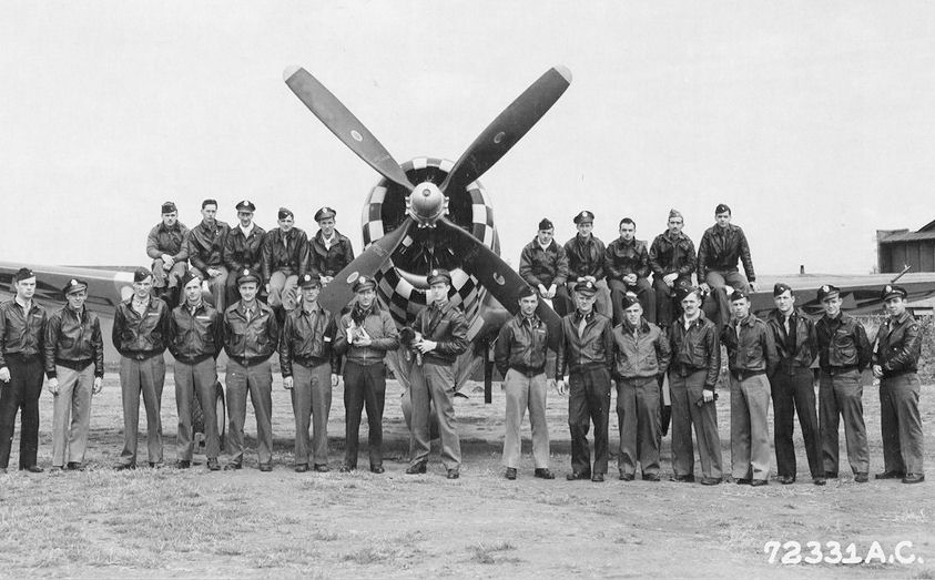 Pilots of the 82nd Fighter Squadron, 78th Fighter Group, 8th Air Force.